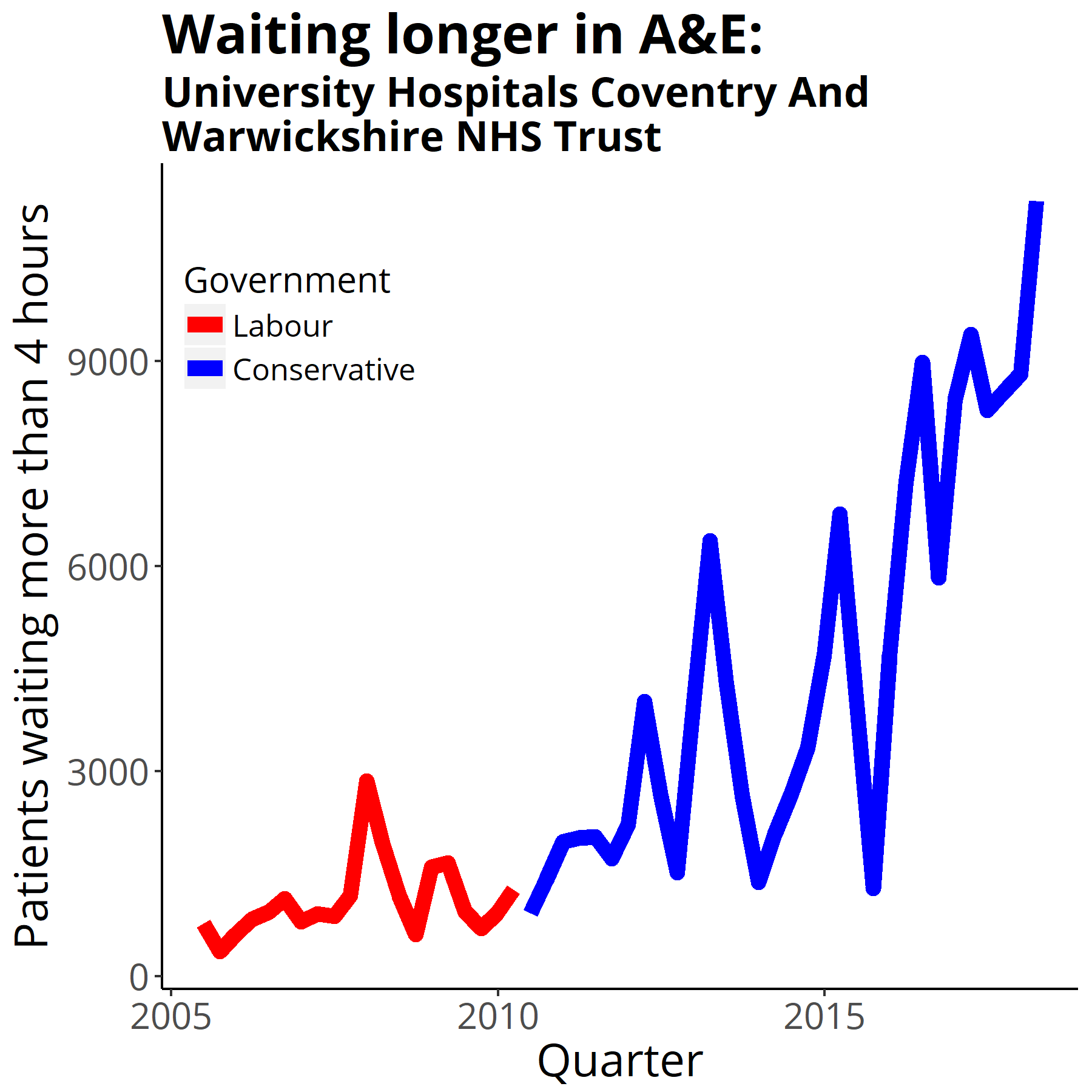 en|1=Four-hour target in the emergency department quarterly figures from NHS England[1]